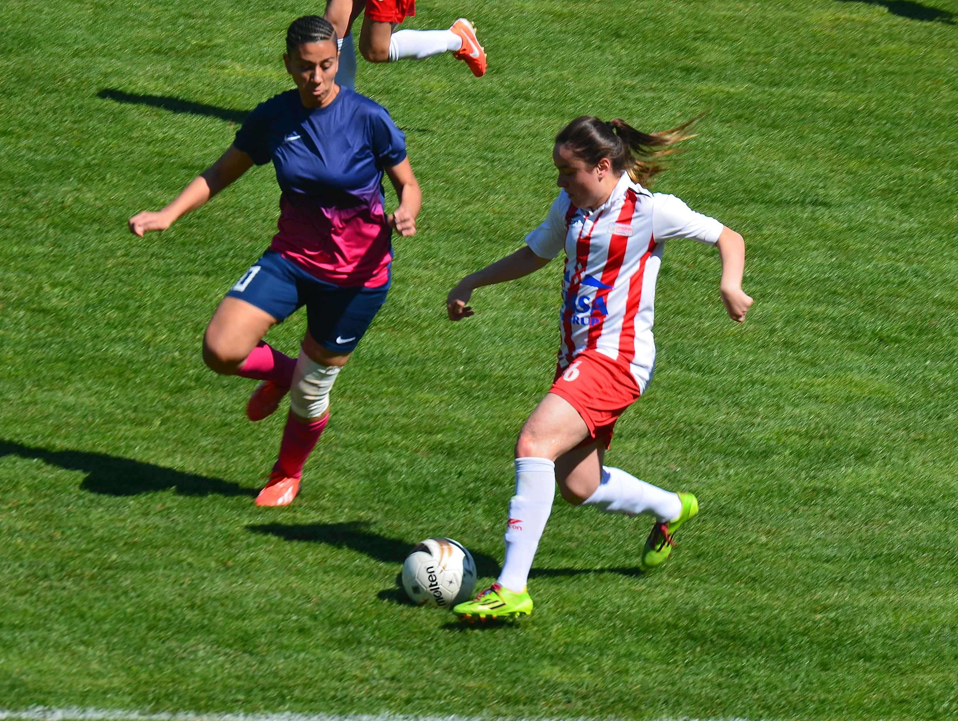 Yaşam Göksu plating for Konak Belediyespor in the 2014-15 season